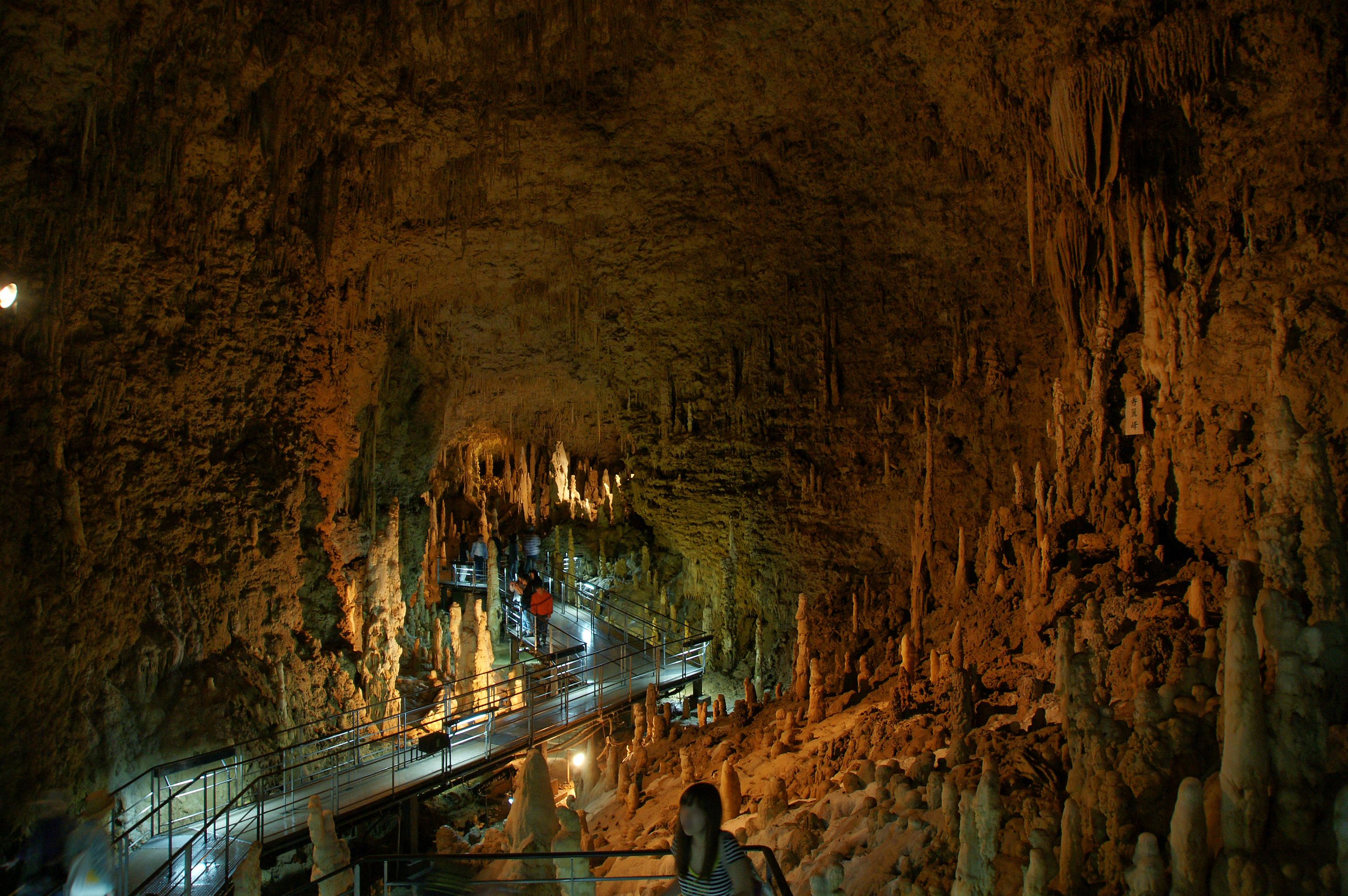 Gyokusendo in Nanjo, Okinawa prefecture, Japan.